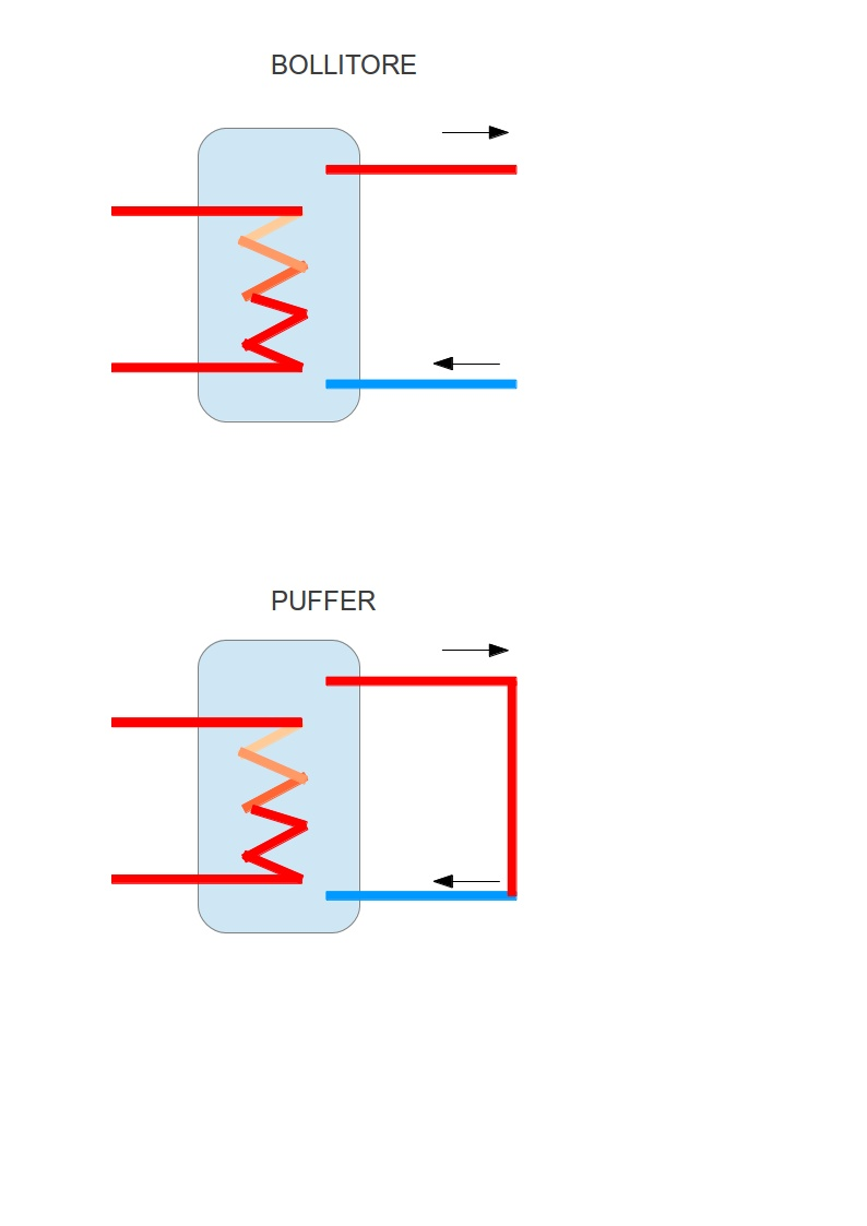 puffer end boiler